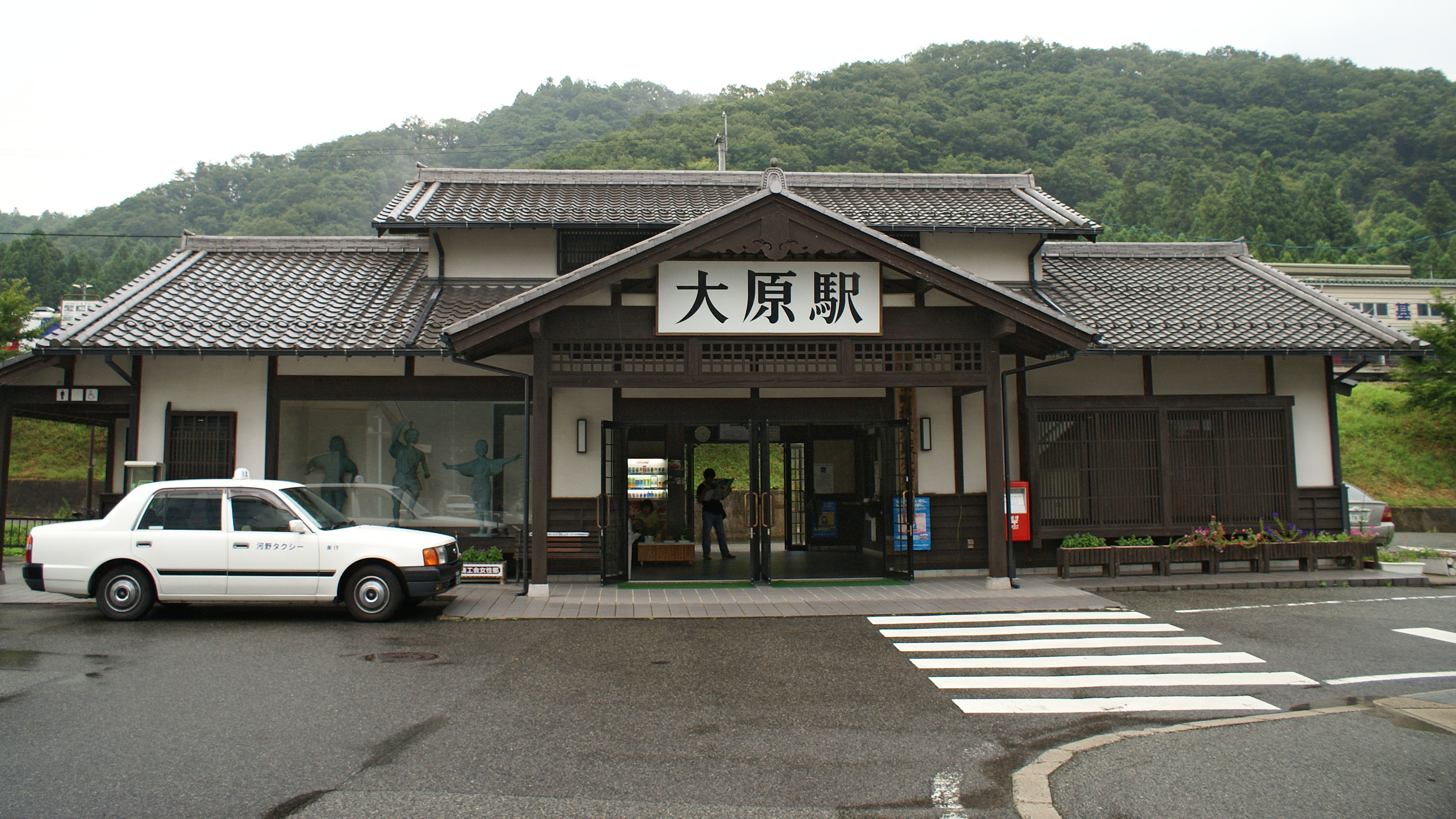 Ohara Station in Mimasaka, Okayama prefecture, Japan